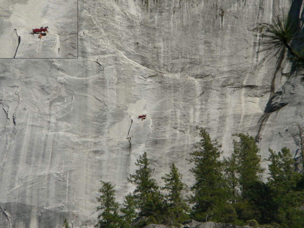 Tenaya Creek Bivouac Description: Bivouac of rock climbers on rock face southeast of Tenaya Bridge, Tenaya Creek Canyon (inset, upper left, shows more detail) Viewpoint location: Snow Creek Trail, Yosemite National Park Viewpoint elevation: 4000 feet Location Datum: WGS84/NAD83 View direction: Southeast Camera: Panasonic Lumix DMC FZ5